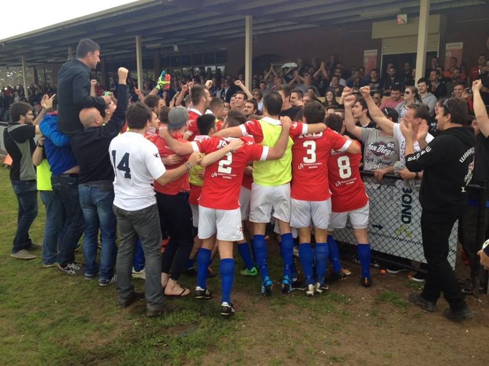 North Geelong Warriors fans and players celebrate promotion back to the Victorian top flight for the first time since 1997